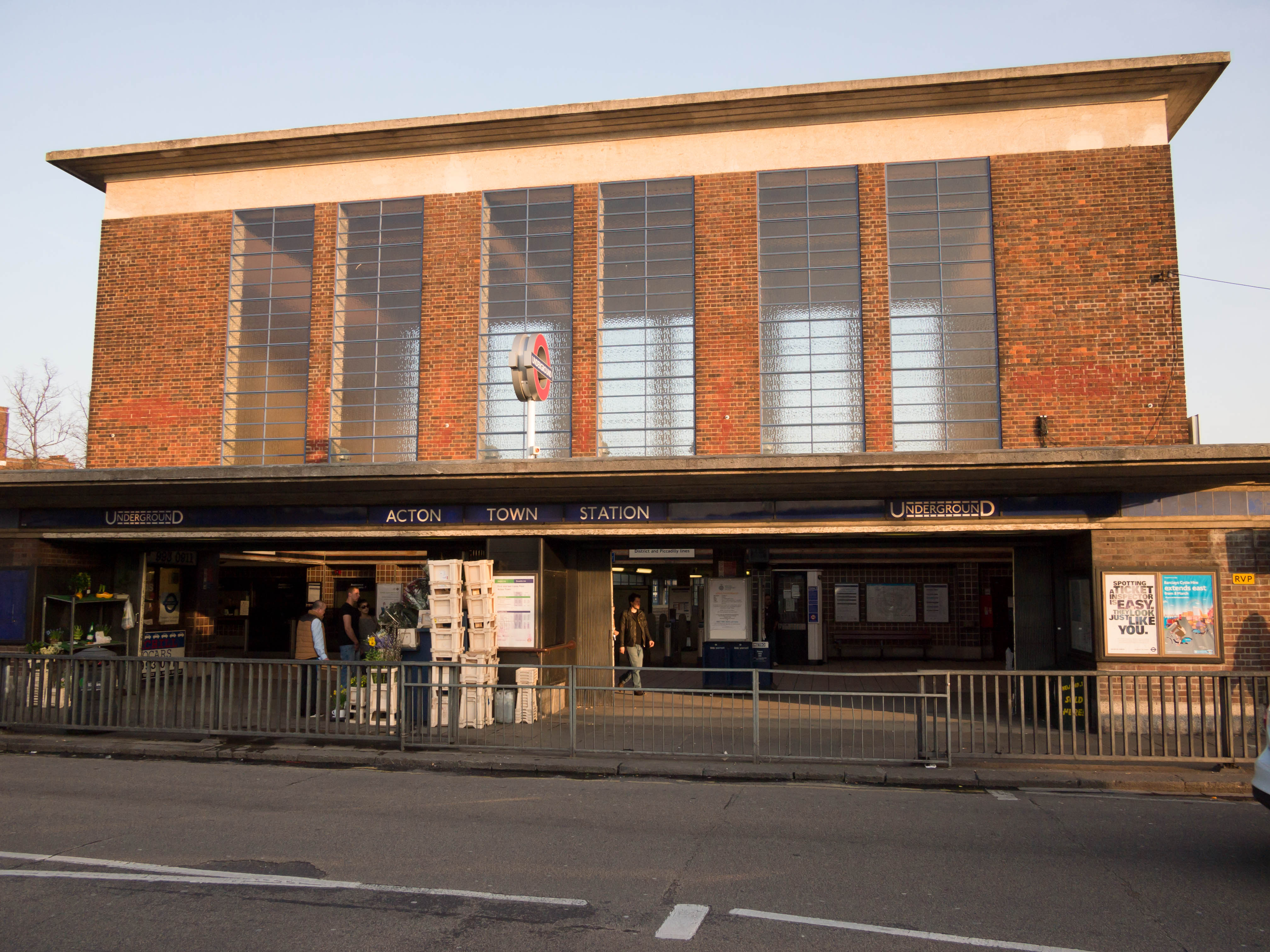 Acton Depot open day, March 2012